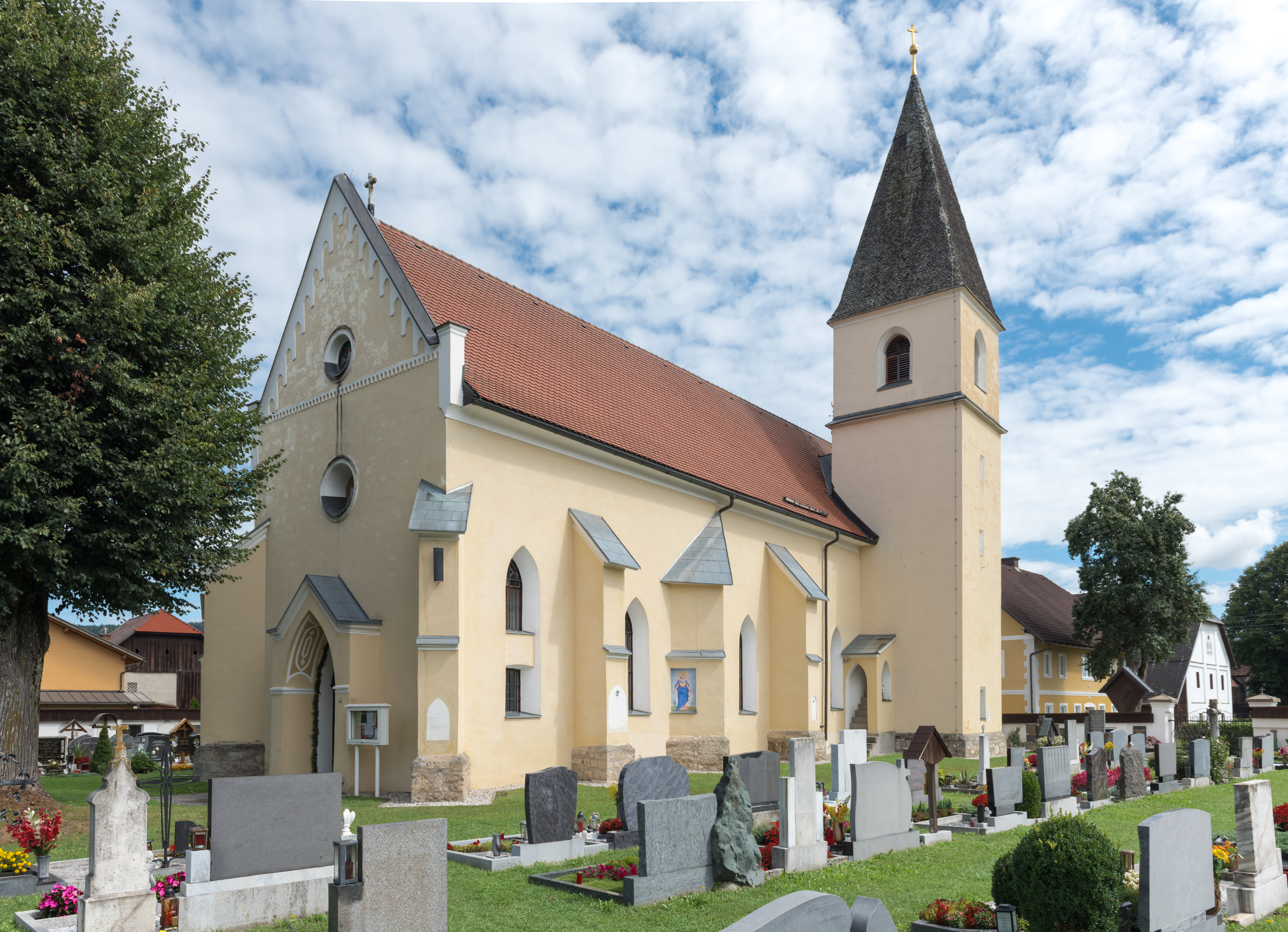 Subsidiary church Saint Andrew in Unterloibach #1a, municipality Bleiburg, district Voelkermarkt, Carinthia, Austria, EU